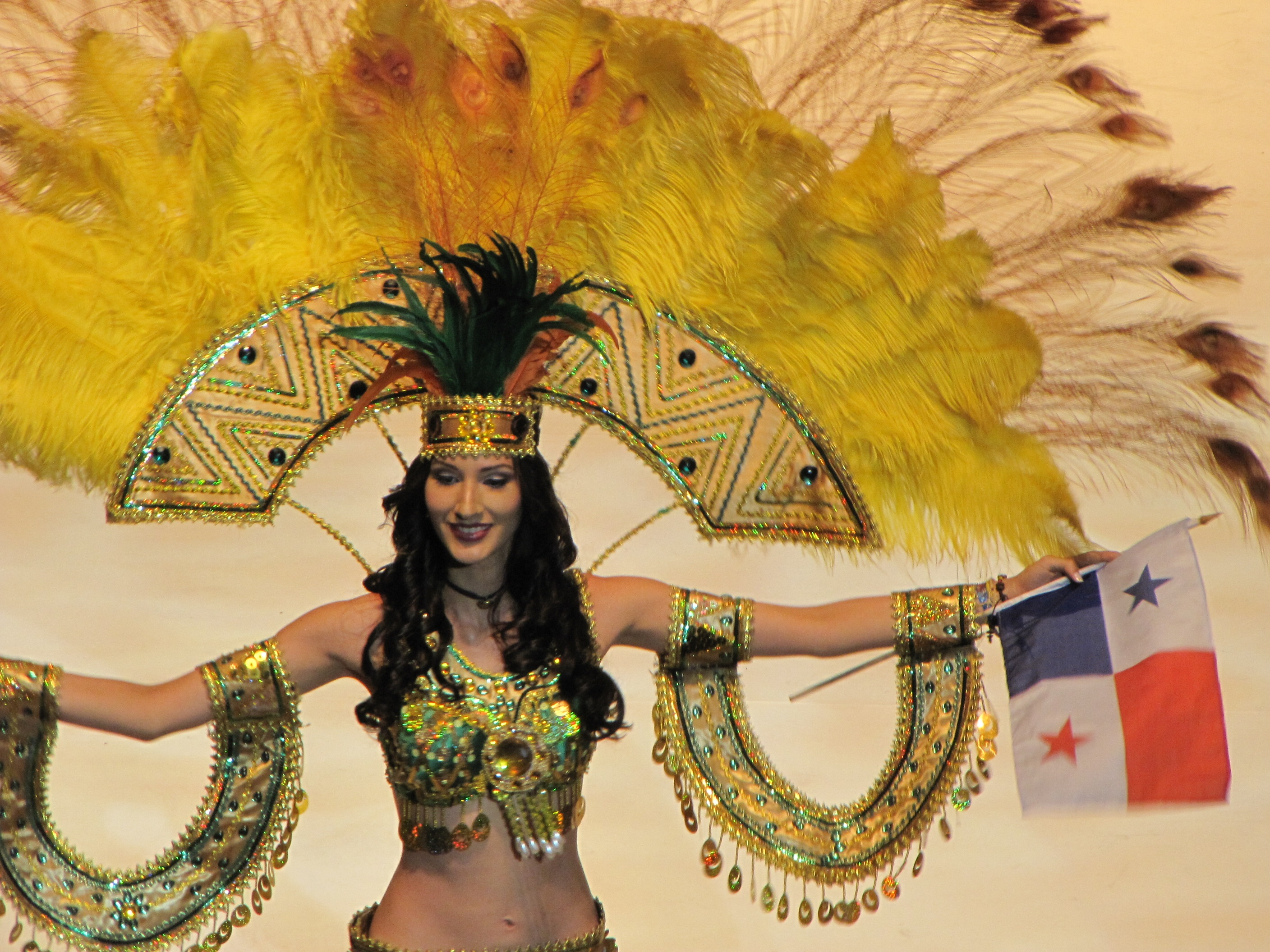 Karen Jordán, representing Panama at the Reinado Internacional del Café 2011 (Queen of Coffee) beauty contest in Manizales, Colombia.